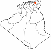 Blank map of the provinces of Algeria with a red city locator dot. Made by User:Escondites, blank version by User:Golbez.